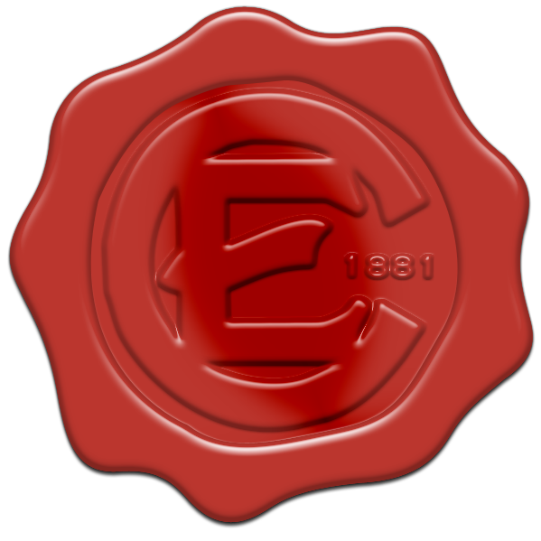 This is the original logo used by the Christian Endeavor movement.